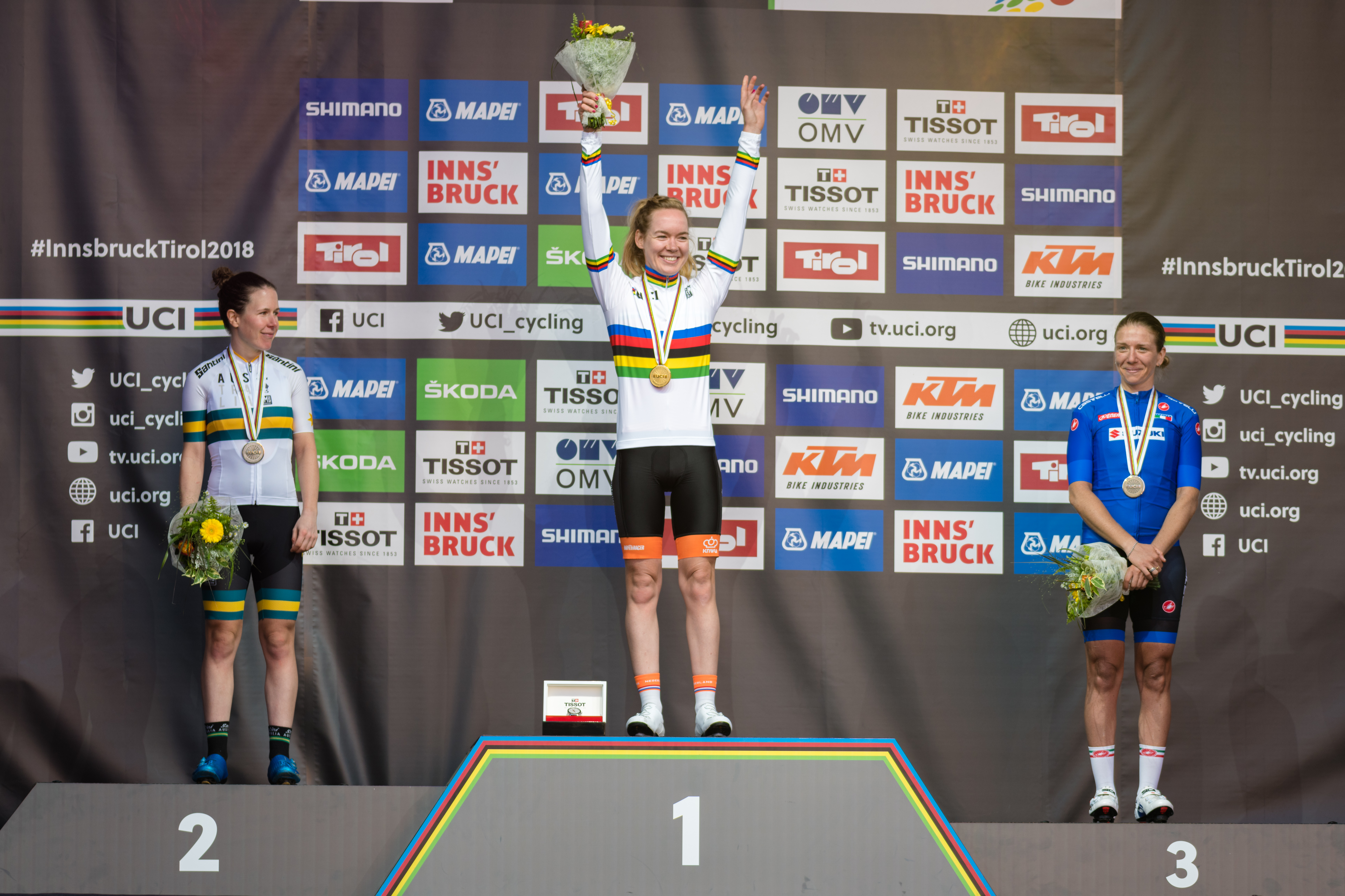 2018 UCI Road World Championships Innsbruck/Tirol Women Elite Road Race. Picture shows: Award Ceremony with Amanda Spratt of Australia, winner Anna van der Breggen of the Netherlands and Tatiana Guderzo of Italy